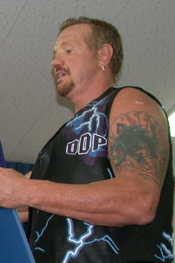 Petty Officer First Class Richard Sweet of Warren, Ohio, is reenlisted by Diamond Dallas Page, three-time world champion of World Championship Wrestling (WCW) during a World Freedom Tour through the Pacific. Page and actress Debbie Dunning, who stared on the hit television show “Home Improvement,” visited ships, shore commands, and bases in Guam, Yokosuka, and Hawaii during August. Page, whose father served in the Navy, said, "To swear someone in any branch of the armed forces is a huge honor and it was my privilege to do this.” Page continued “the sailor's commitment is especially meaningful as the nation fights the ongoing War on Terror.” Petty Officer Sweet proudly wore the champ's huge WCW belt during the reenlistment ceremony held aboad U. S. Naval Hospital, Yokosuka, Japan.